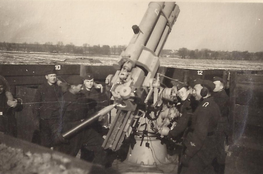 8,8cm-antiaircraft battery in Berlin-Karow, gun crew on the gun "Cäsar" (Februar 1944)